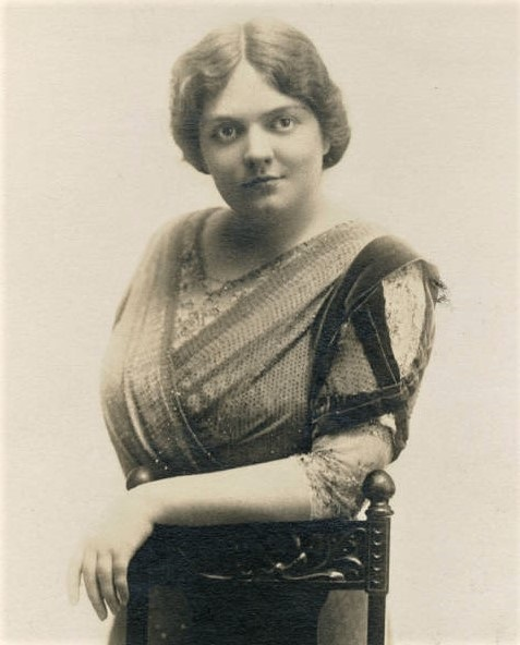 American actress Dorothy Vaughan - publicity still (cropped)